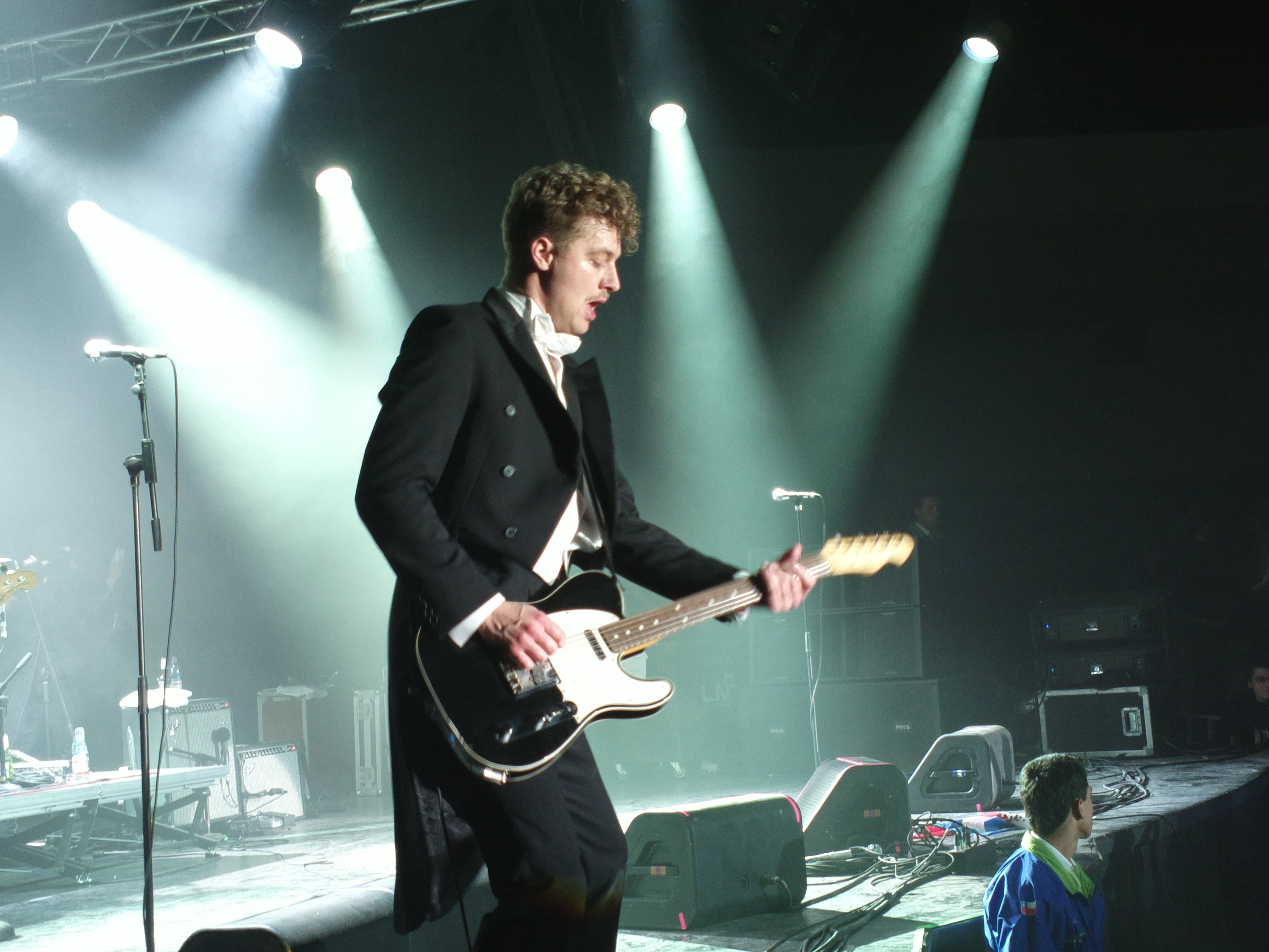 Swedish rock band The Hives performing at La Cúpula theatre, in Santiago, Chile, on April 5th, 2013.